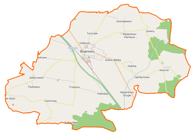 Map of Gmina Bojanowo, Poland This map of Bojanowo (gmina) was created from OpenStreetMap project data, collected by the community. This map may be incomplete, and may contain errors. Don't rely solely on it for navigation. Border coordinates51.750016.6320←↕→16.893251.6366